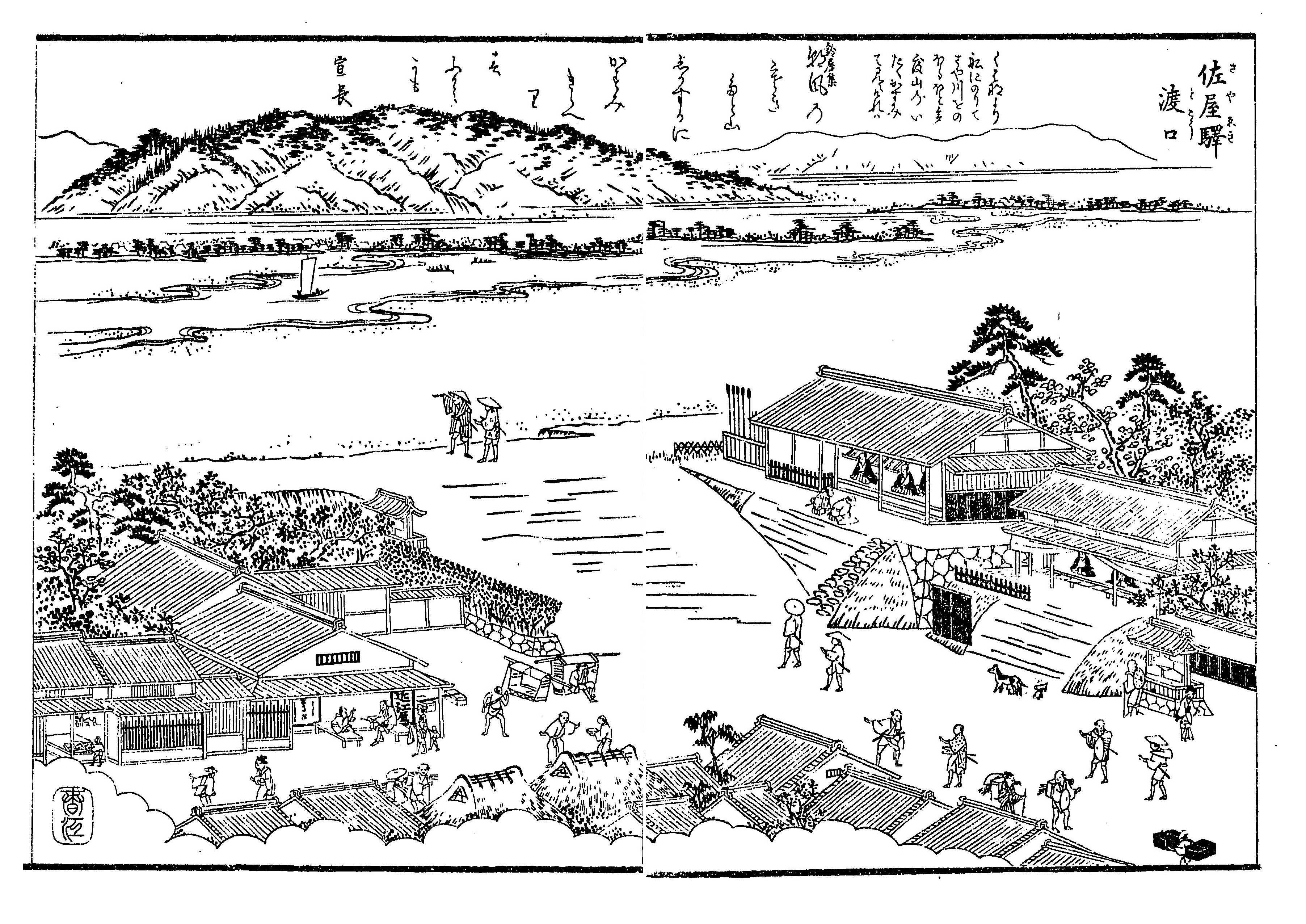 National Diet Library Digital Collection This image is available from the website of the National Diet Library This tag does not indicate the copyright status of the attached work. A normal copyright tag is still required. See Commons:Licensing for more information. English | 日本語 | +/−